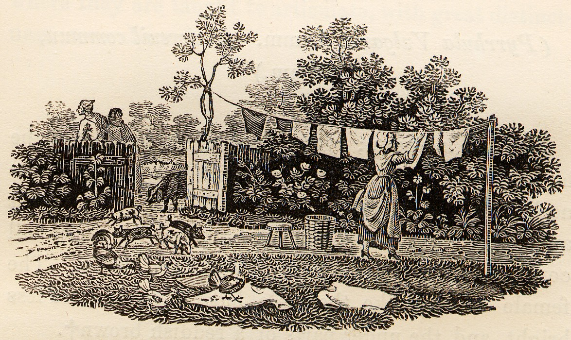 Woodcut by Thomas Bewick in History of British Birds 1797-1804